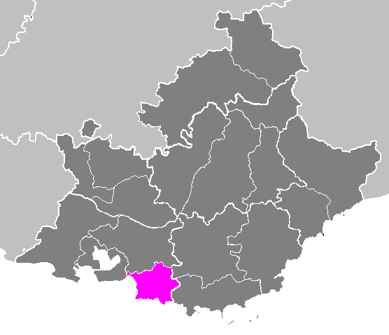 Locator map of the arrondissement of Istres (before 2018) in Bouches-du-Rhône and Provence-Alpes-Côte d'Azur (France).